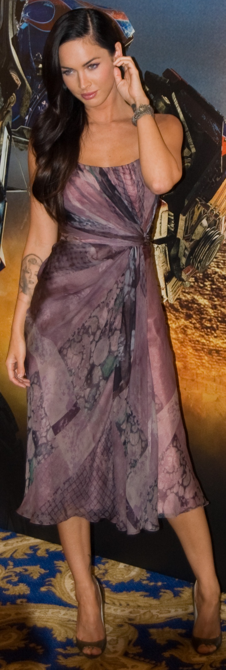 Megan Fox posing at the Transformers: Revenge of the Fallen press conference in Paris